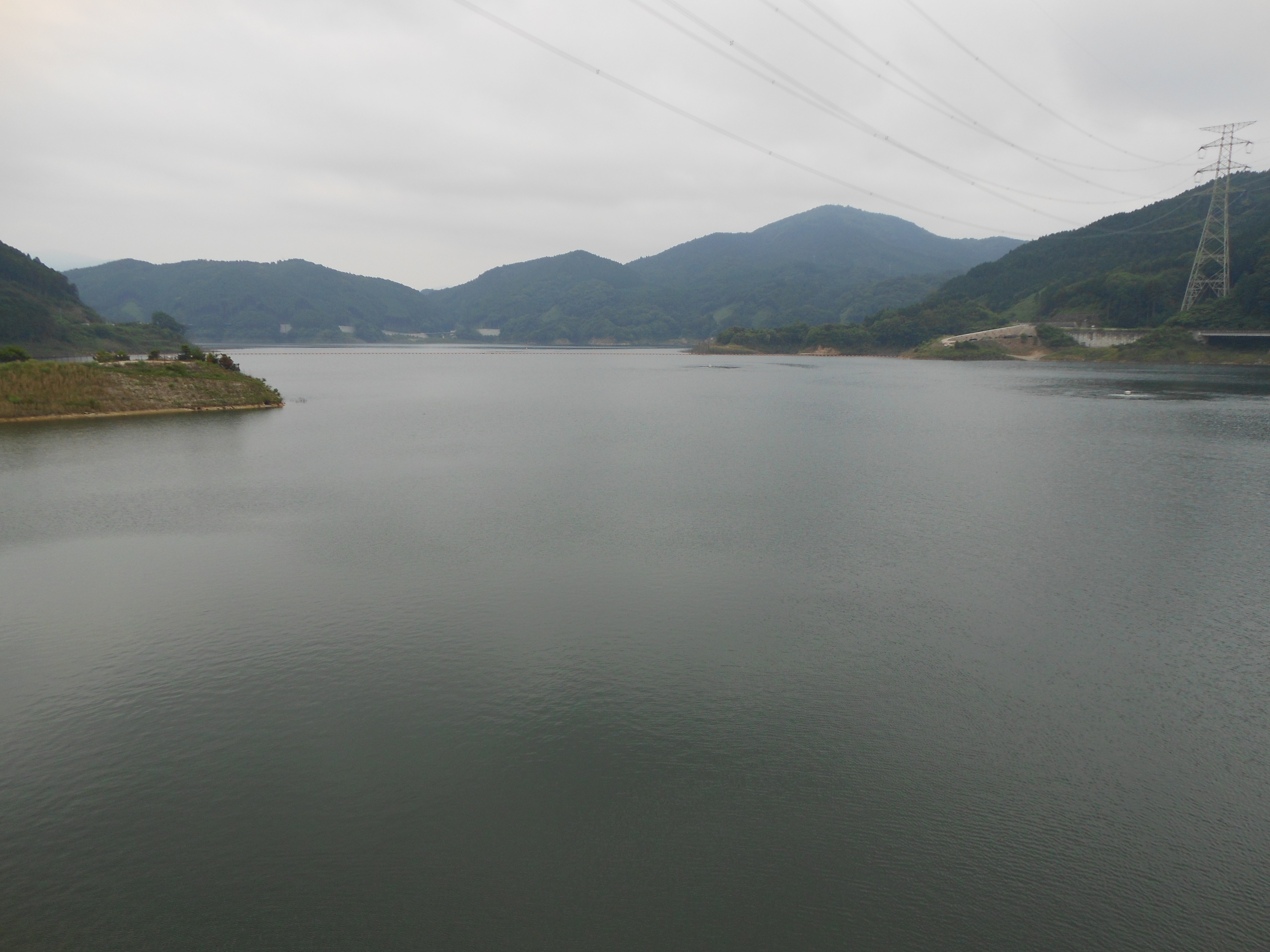 Lake Fuji-Shakunage (Kasegawa Dam)